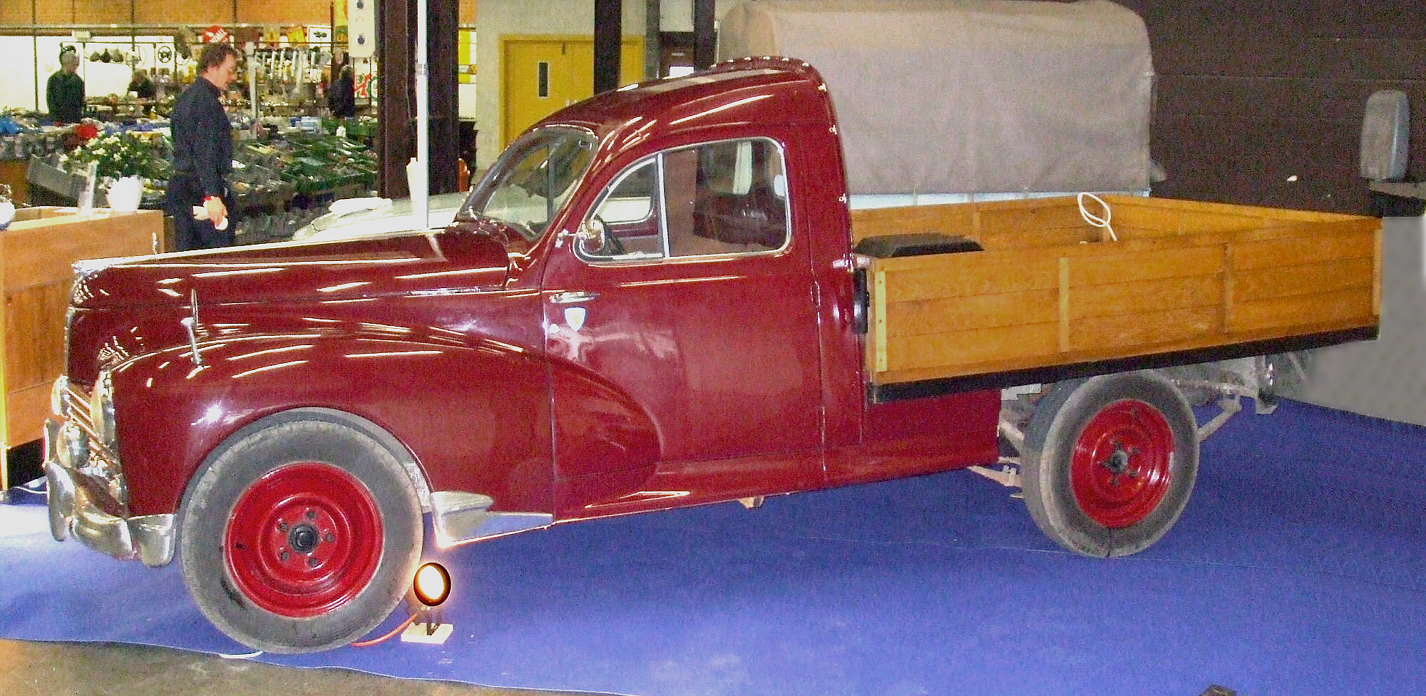 Peugeot 203 Pickup